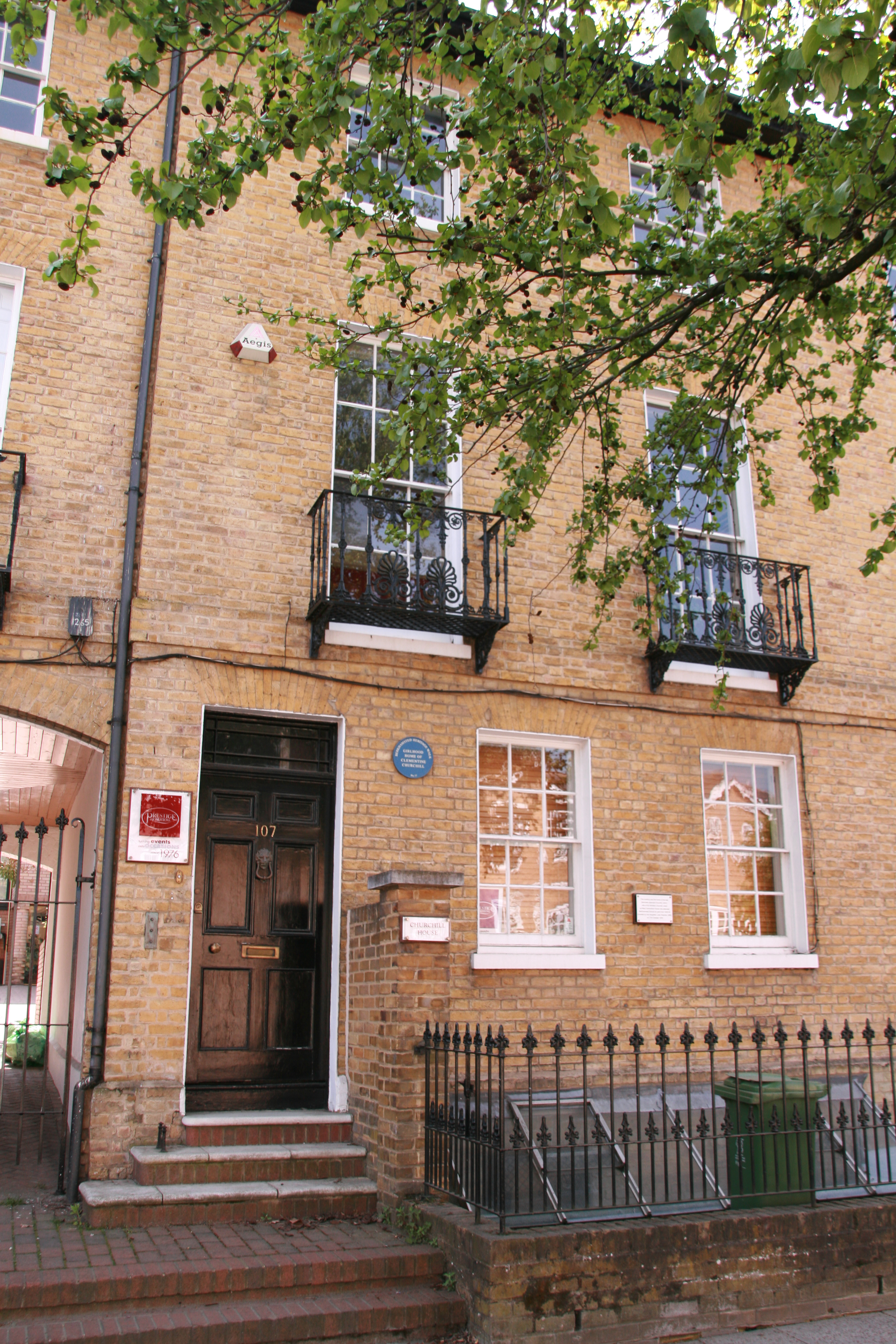 The childhood home of Clementine Churchill in Berkhamsted, Hertfordshire in the United Kingdom